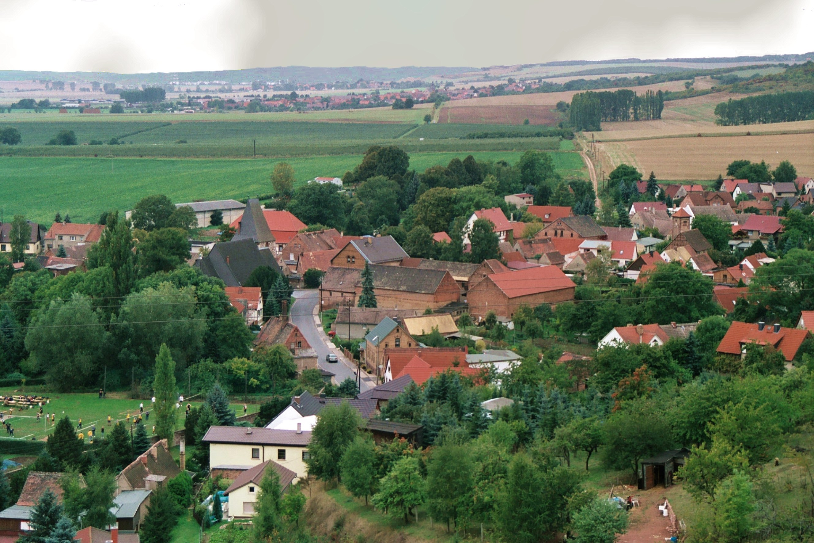 Bornstedt (bei Eisleben), view from the Schweinsburg to the village